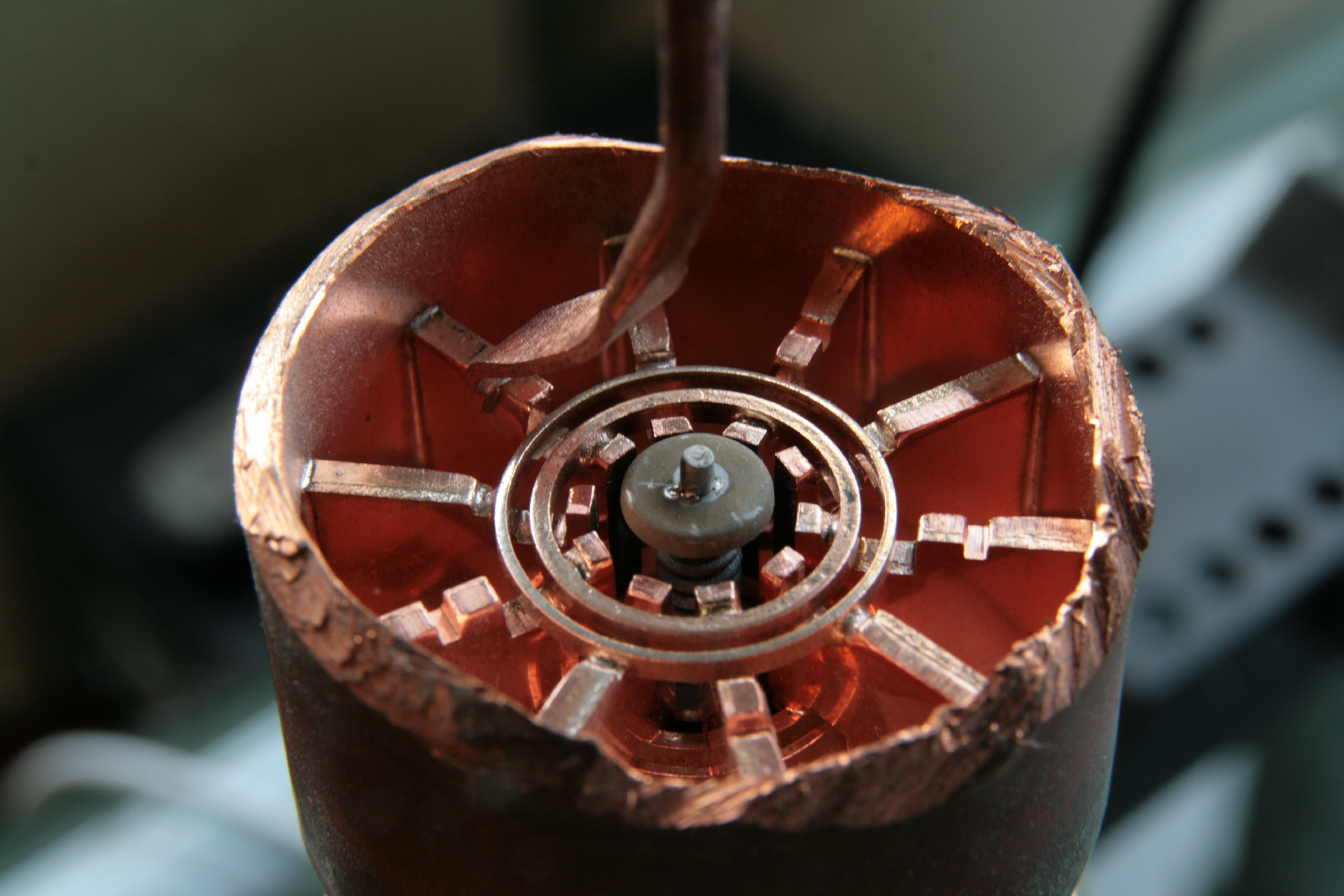 Magnetron section transverse to axis. Section through a magnetron from a microwave oven. The magnetron has a diameter of about 4 centimetres. There is a central cathode which is grey in colour. Everything else is copper and forms the anode. Around the anode, a total of 10 'spokes' are connected to the exterior of the magnetron. There are 5 'plain' spokes that are alternated with 5 'notched' spokes (the notches can be seen near the outer ring). Each pair of adjacent spokes (i.e. a plain spoke and a notched spoke) forms a resonant cavity. Around the cathode, two concentric rings (an inner ring and an outer ring) can be seen. The inner ring electrically connects the notched spokes; the outer ring electrically connects the plain spokes. The inner and outer rings are known as 'strapping' rings and ensures that the magnetron operates in the 'pi' mode. For the notched spoke that is roughly at the 'ten o'clock' position, the notch has an output coupling loop that extends upwards and out of the top of the photo. The output coupling loop is used to couple microwave energy out of the magnetron so that the microwave energy can heat up food in the microwave oven. Incidentally, note that the magnetron shown in this photo is almost exactly the same as the magnetron shown in another photo on the magnetron page